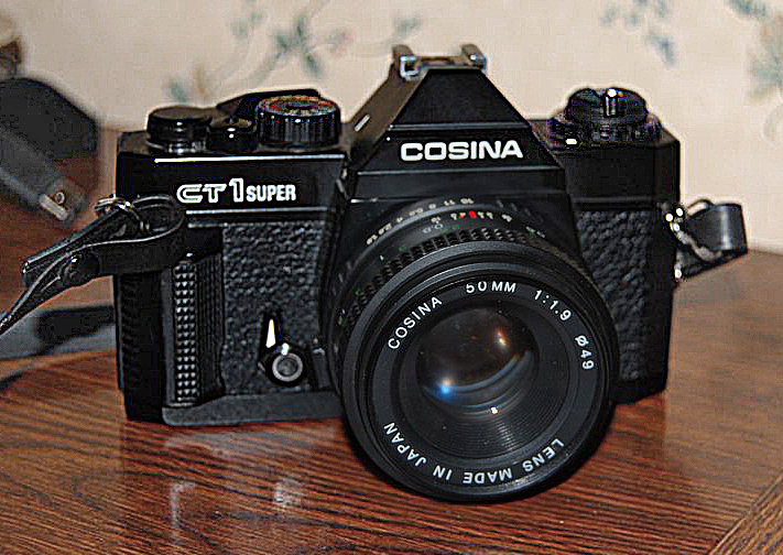 "Cosina CT1 Super" film SLR camera with Cosina 50mm lens.